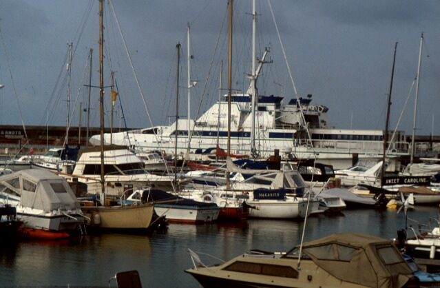 Fast ferry to Fecamp In 1992, a fast passenger ferry (in fact a modified helicopter carrying battleship !) was experimented between the port of Fecamp in France, and Brighton marina. The crossing time was just 2 hours. Many passengers will remember somewhat heroic crossings on rough sea...